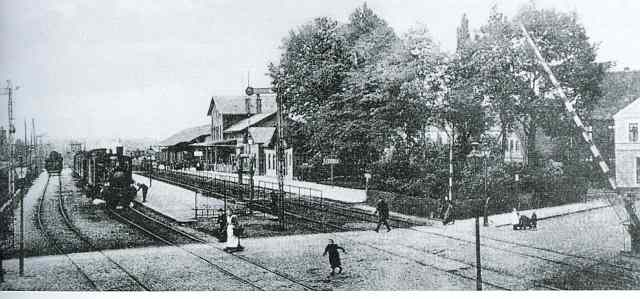 Train station in town of Bünde, District of Herford, North Rhine-Westphalia, Germany.